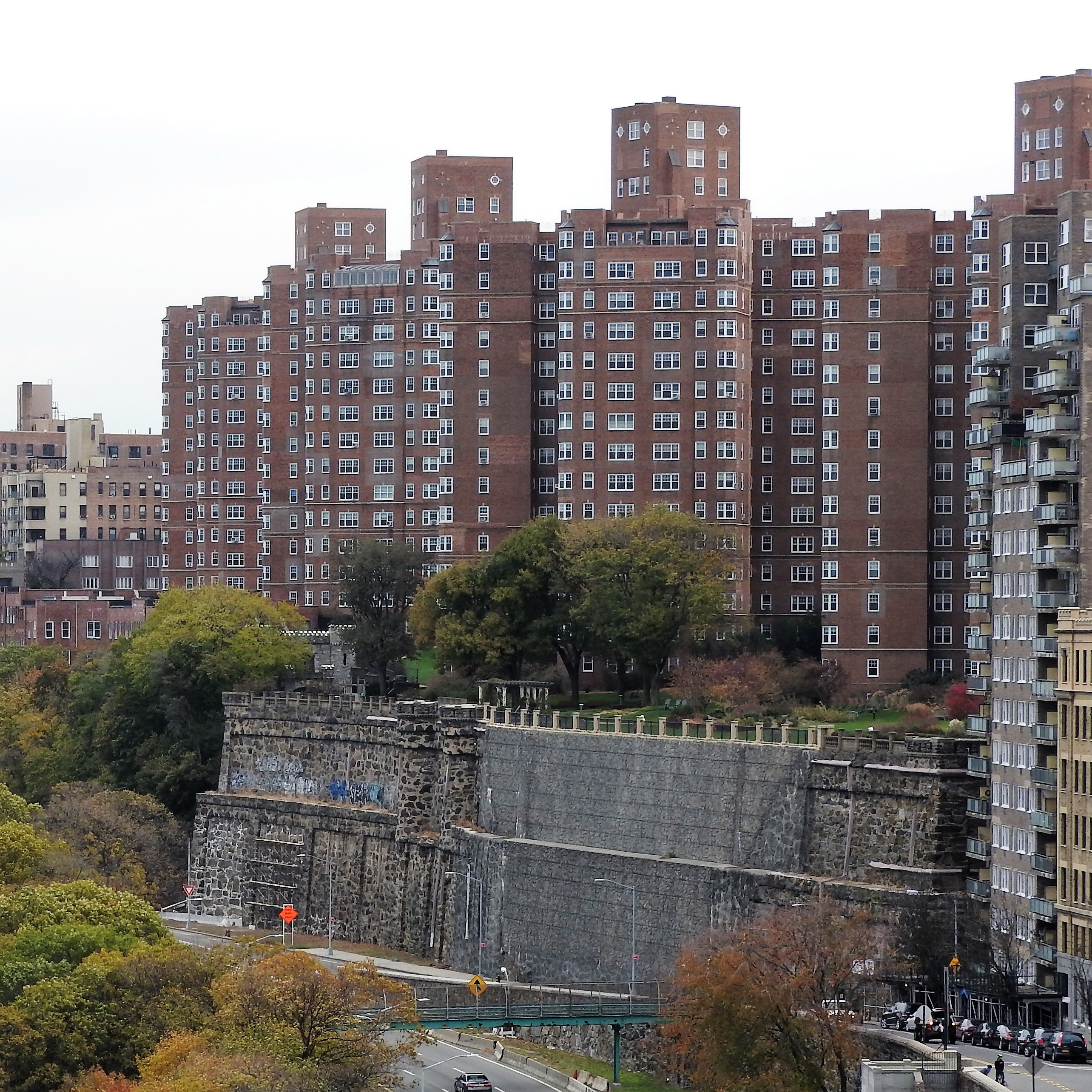 Looking northeast at Castle Village